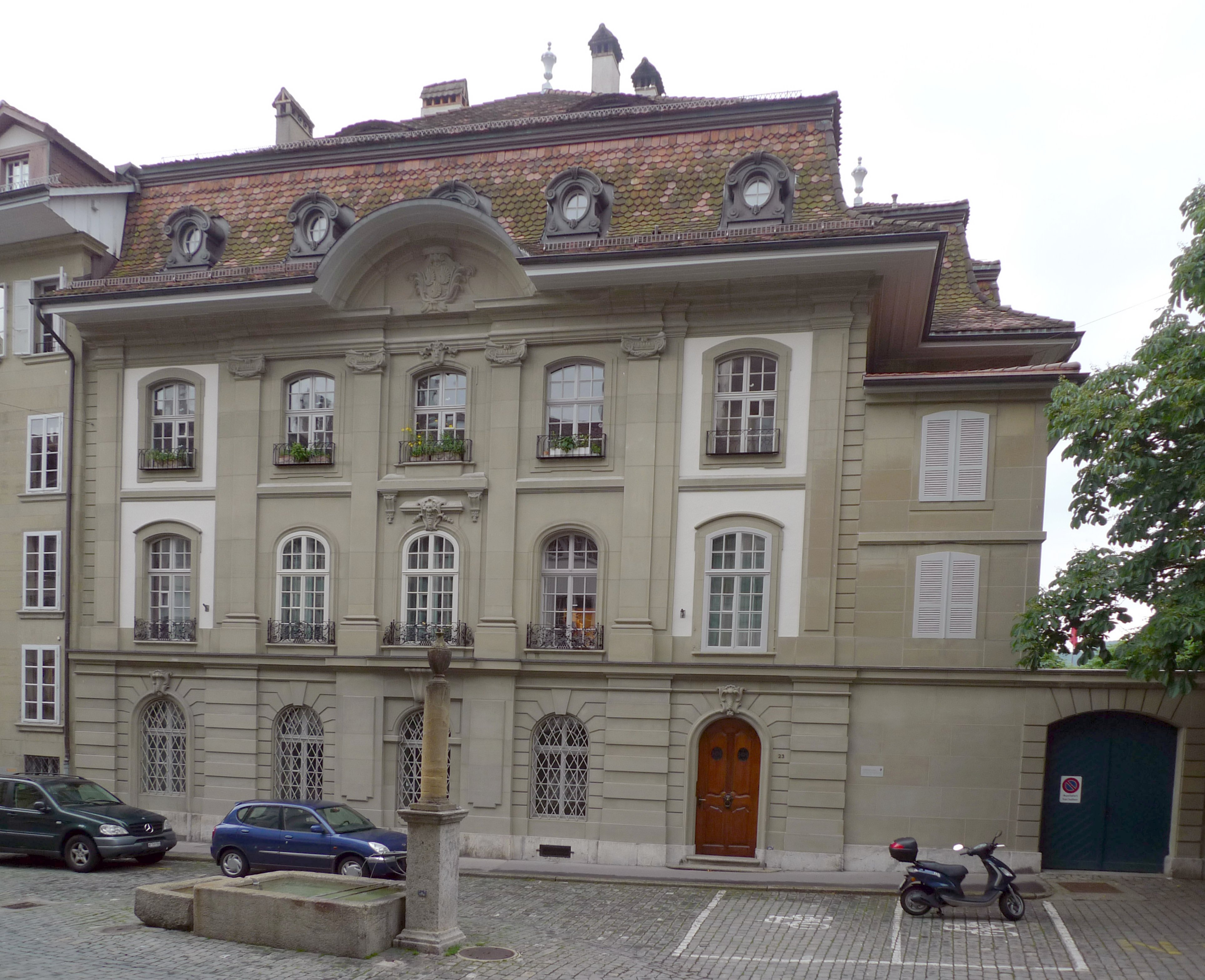 House at Herrengasse 23, Bern, north facade. Built 1690 by Abraham I. Dünz for David Salomon von Wattenwyl, rebuilt around 1756 by Erasmus Ritter in late Louis XV style.